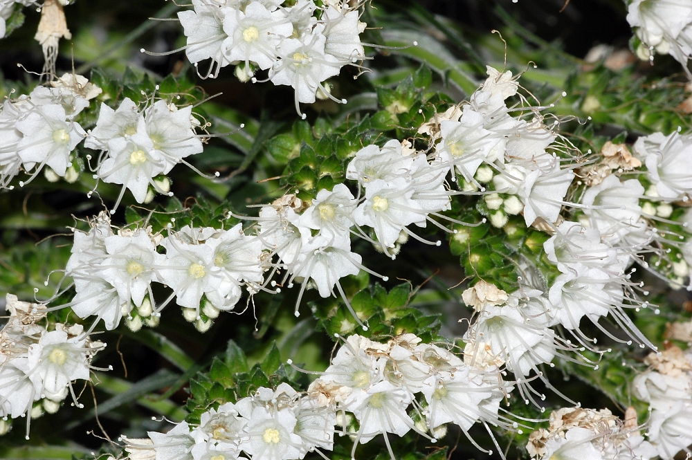 Echium simplex, known from Canary Islands, photographed in the Botanical Garden Berlin, Germany